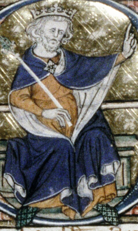 Illustration of Edward I, King of England as it appears on folio 9r of Oxford Bodleian Library Rawlinson C 292.